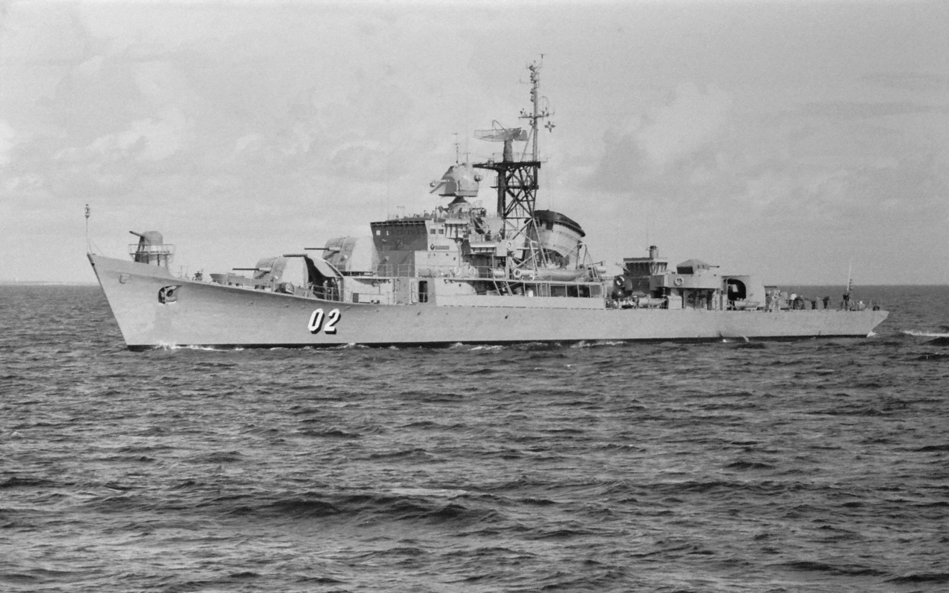 The finish frigate Hämeenmaa.